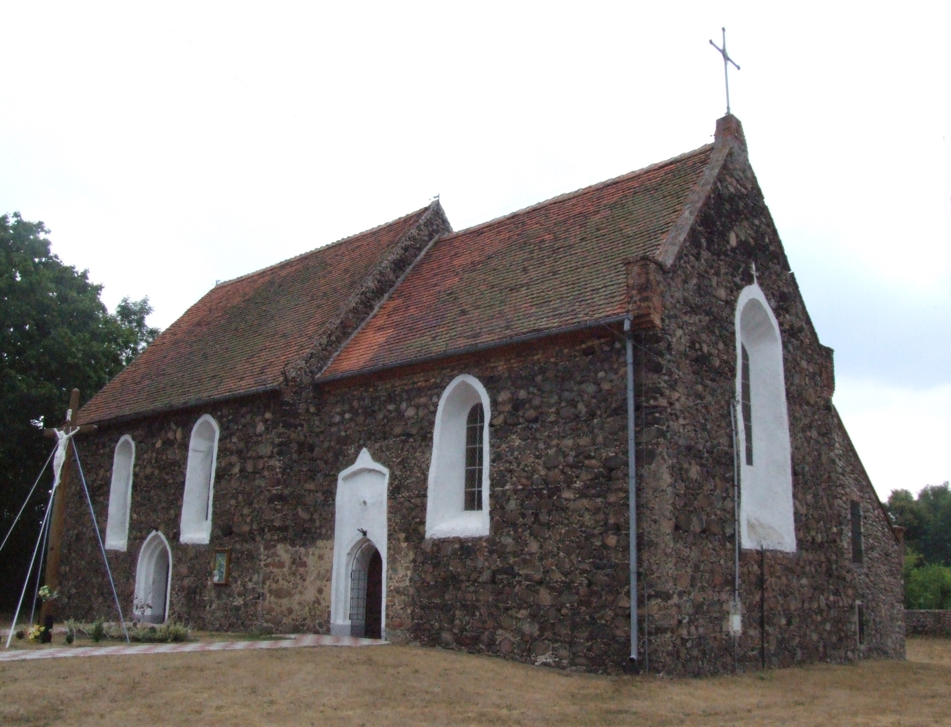 A medieval church from the 13th century (Mirocin Dolny, Poland)